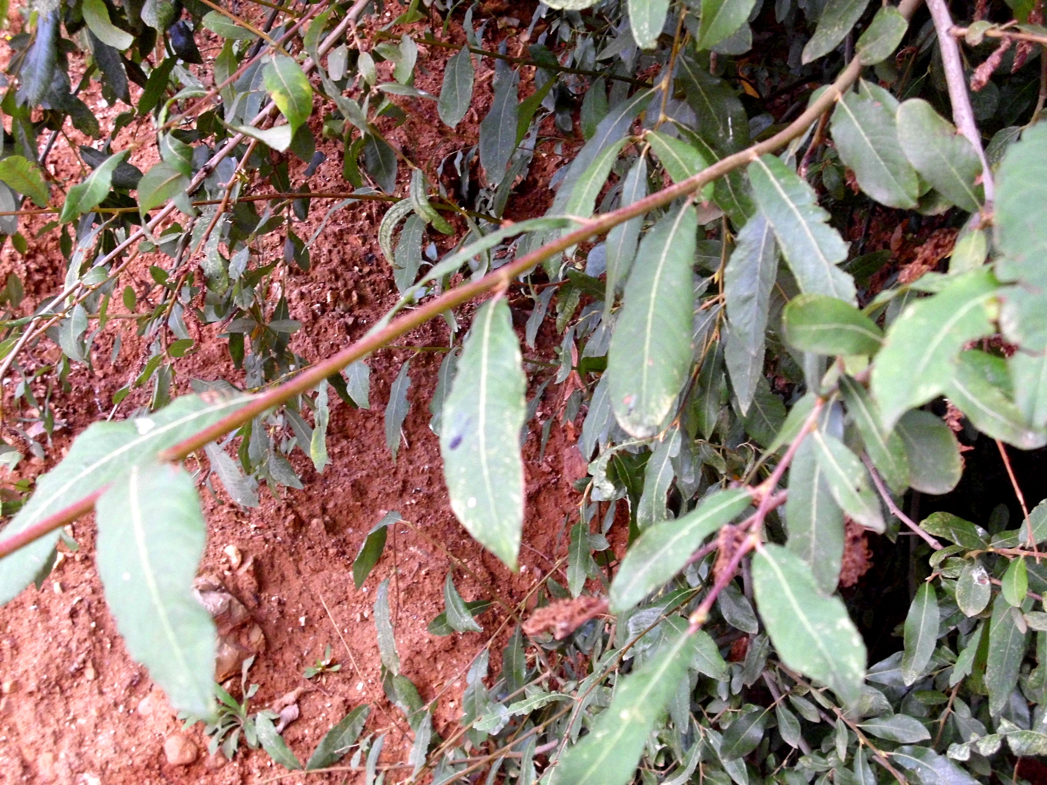 Salix pedicellata leaves Campo de Calatrava, Spain